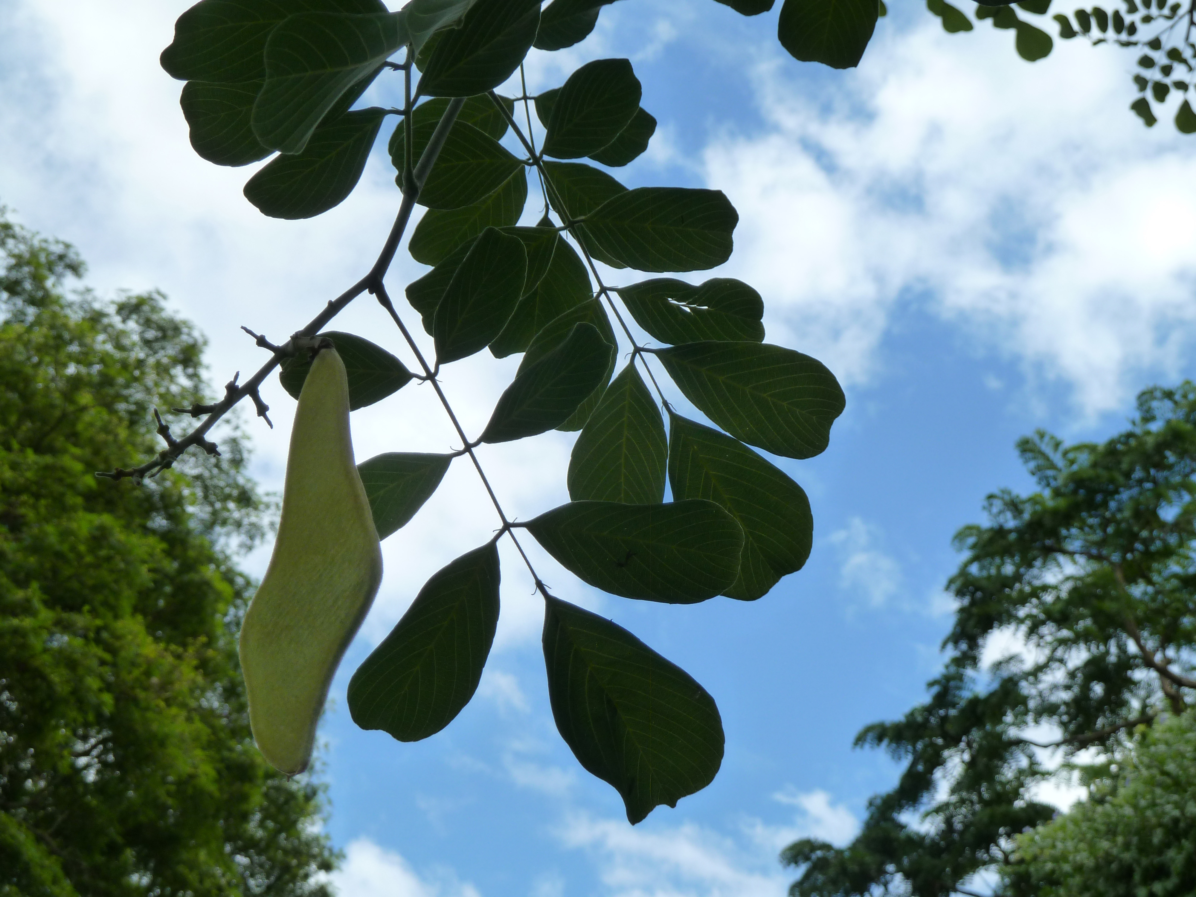 Foliage and seed pod of Panga panga at Foster Botanical Garden in Honolulu, Hawaii